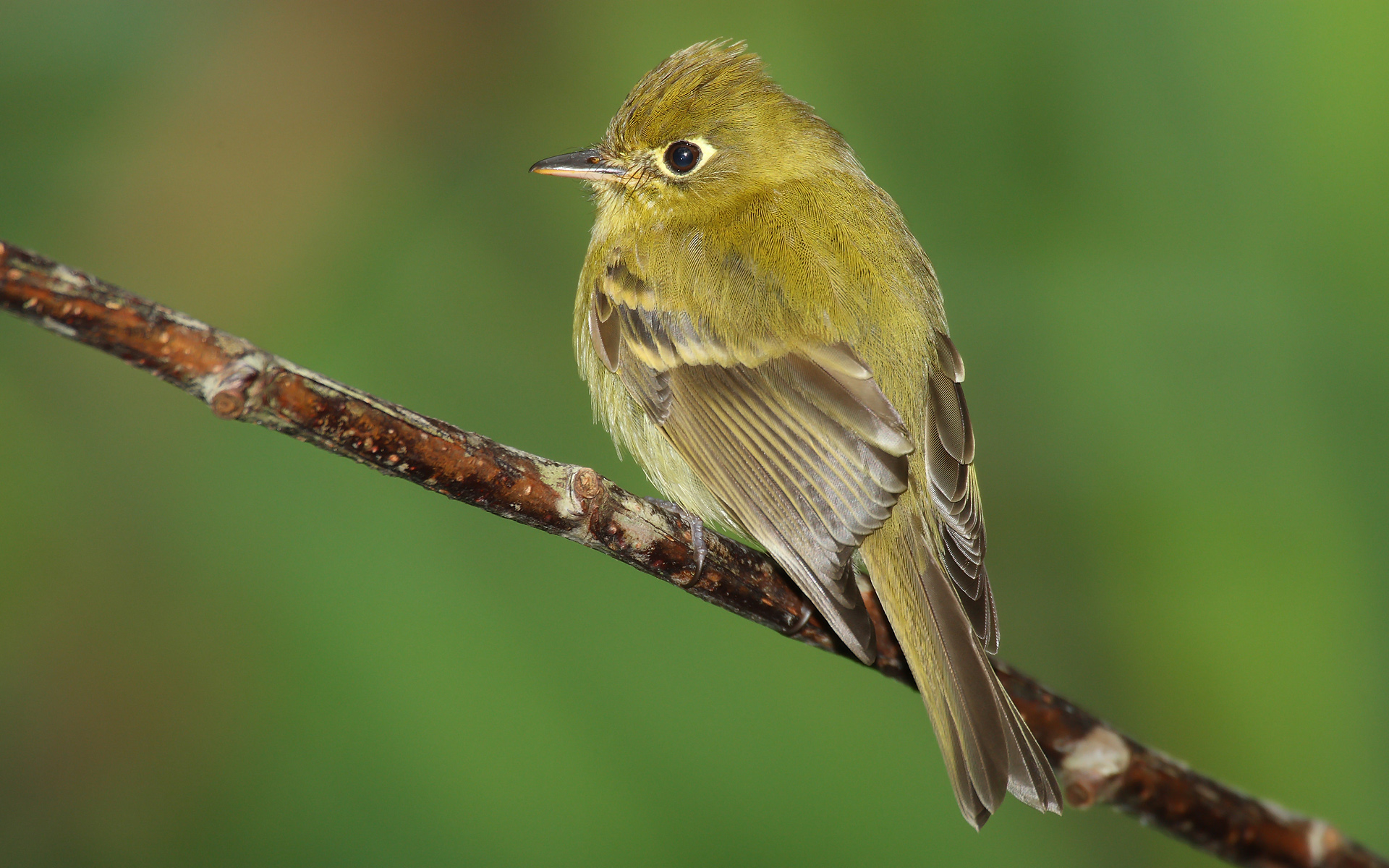 Yellowish Flycatcher -- Parque Internacional La Amistad, Panama -- 2008 January.